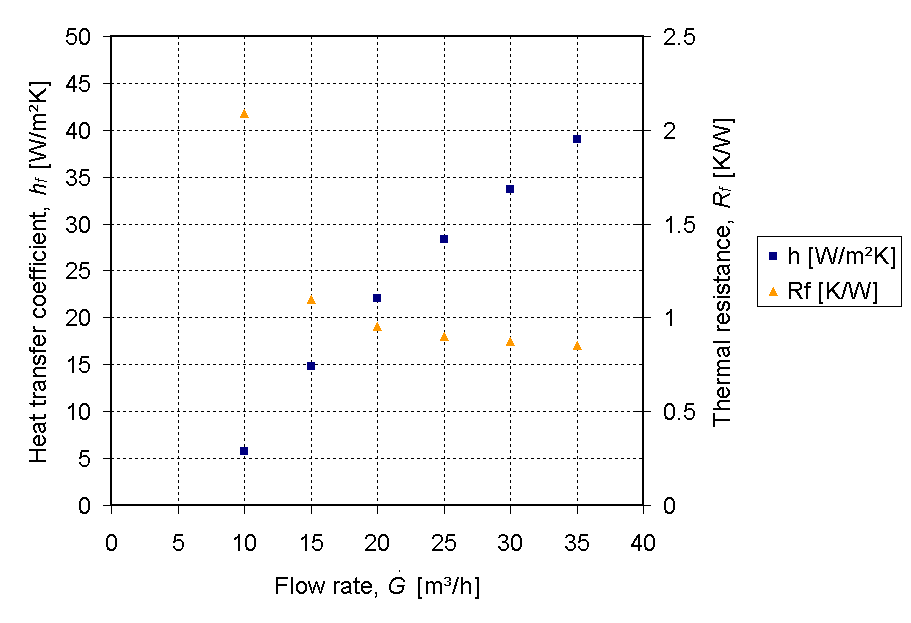 Thermal resistance and heat transfer coefficient plotted against flow rate for the specific heat sink design used by Jeggels, et. al. (Jeggels, Y.U., Dobson, R.T., Jeggels, D.H., Comparison of the cooling performance between heat pipe and aluminium conductors for electronic equipment enclosures, Proceedings of the 14th International Heat Pipe Conference, Florianópolis, Brazil, 2007.) The data was generated using the equations provided in the article. The data shows that for an increasing air flow rate, the thermal resistance of the heat sink decreases.